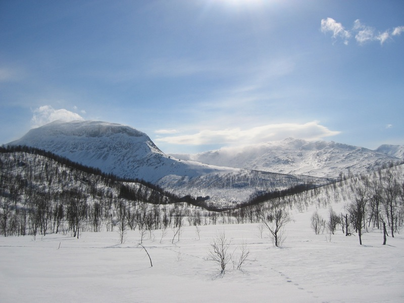 Sjurfjellet in front and Båtfjellet in back